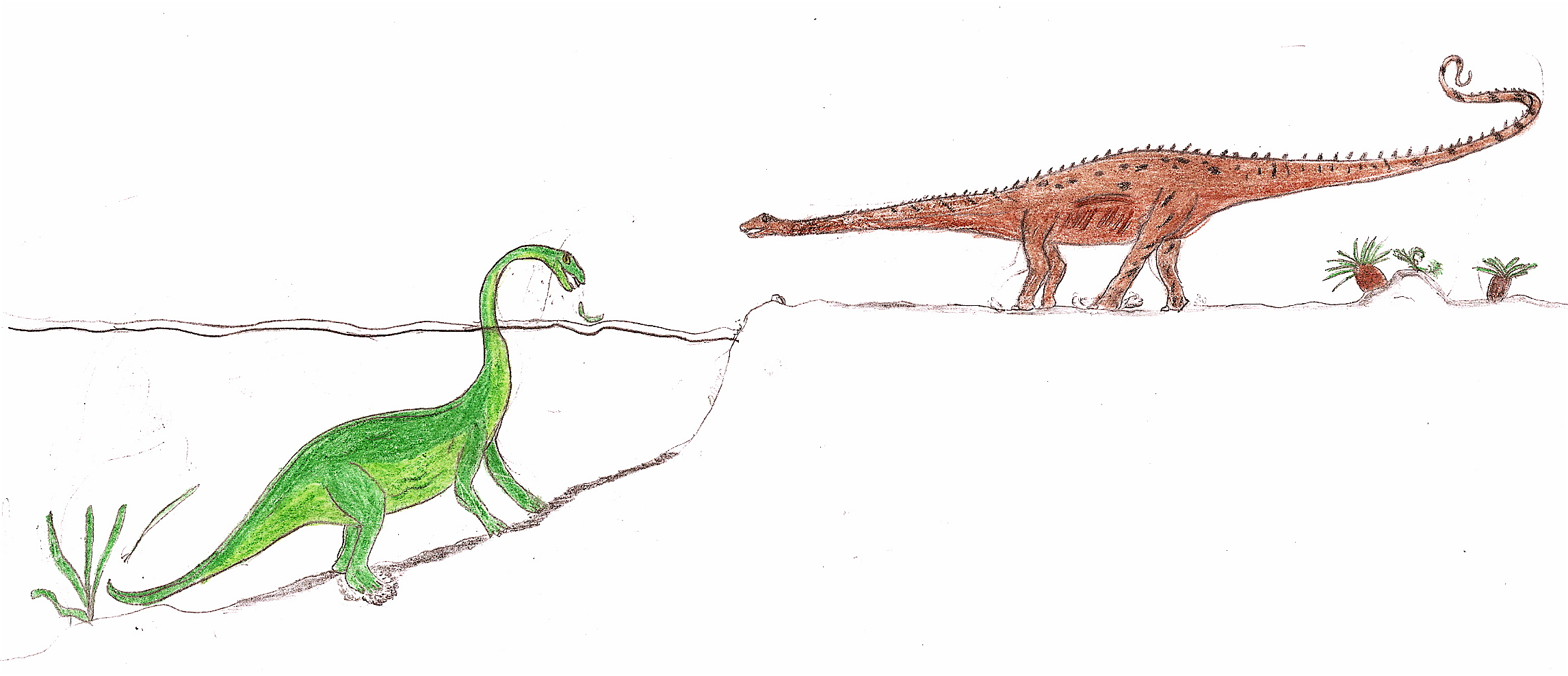 A Diplodocus old-new model WTF comparison